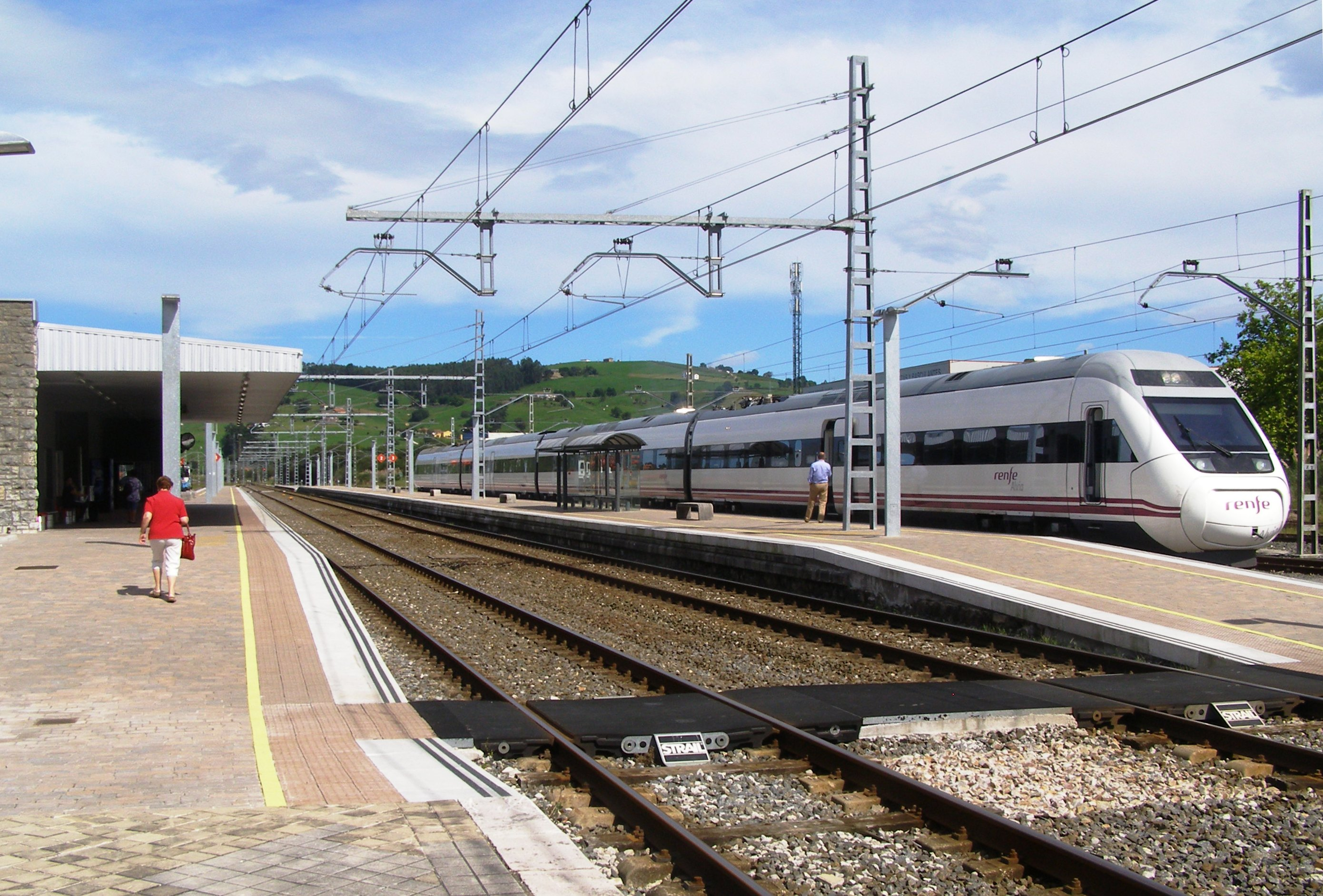 Alvia S-120 waiting in 2nd platform (Adif railway station, Tanos-Torrelavega)